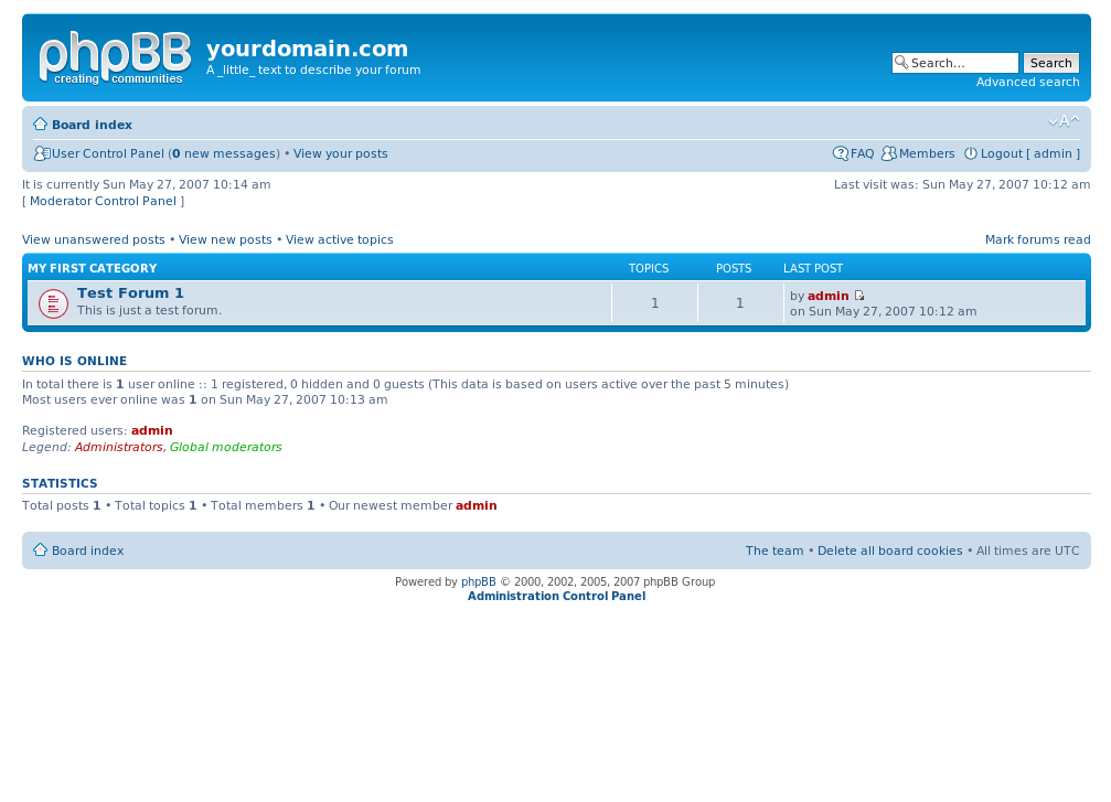 Screenshot of phpBB 3.0.RC1 with the new style proSilver